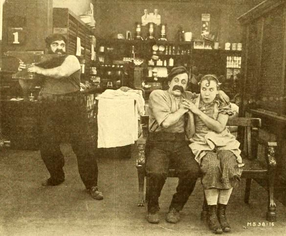 Still from the American comedy short film The Village Smithy (1919) with Louise Fazenda, Chester Conklin, and Kalla Pasha, on page 1684 of the March 22, 1919 Moving Picture World.